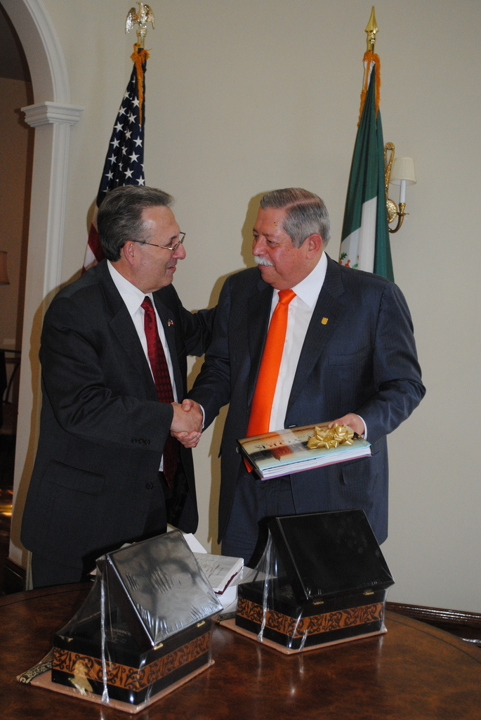 U.S. Ambassador Earl Anthony Wayne meets with Tamaulipas Governor Egidio Torre Cantú in Matamoros.